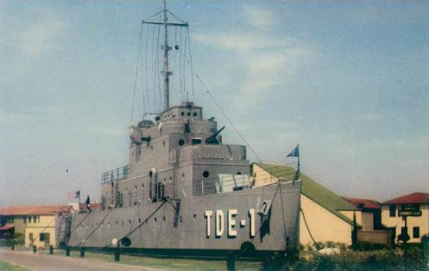 The USS Recruit was a mock ship utilized to train the new recruits. The Naval Training Center San Diego was commissioned in 1923 as a Naval training station. The majority of the buildings were constructed in the 1930s and early 1940s. The NTC was officially closed by the Navy in 1997. It is now a mixed-used area of shops, gallery's, schools, and housing. The oldest portions still have yet to be adaptively-reused. On the National Register #00000426.